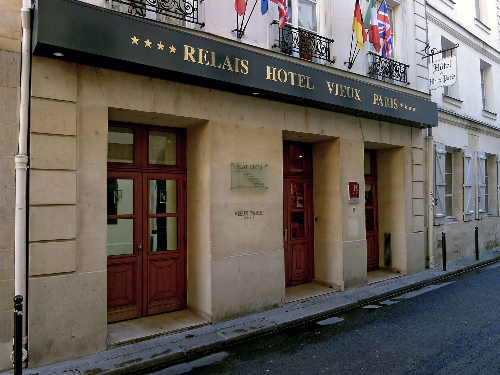 Plaque at No. 9 Rue Gît-le-Cœur, Paris 6th, in honour of the Beat Hotel's most famous occupants: William S. Burroughs, Gregory Corso, Allen Ginsberg, Brion Gysin, Harold Norse, Peter Orlovsky, Ian Sommerville. It was here that Burroughs completed the text of Naked Lunch in 1959. The Beat Hotel became the Relais Hôtel Vieux Paris in 1980.